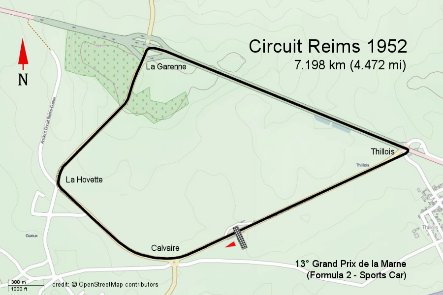 Circuit Reims 1952 (OpenStreetMap)